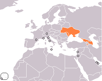 GUAM Organization for Democracy and Economic Development.